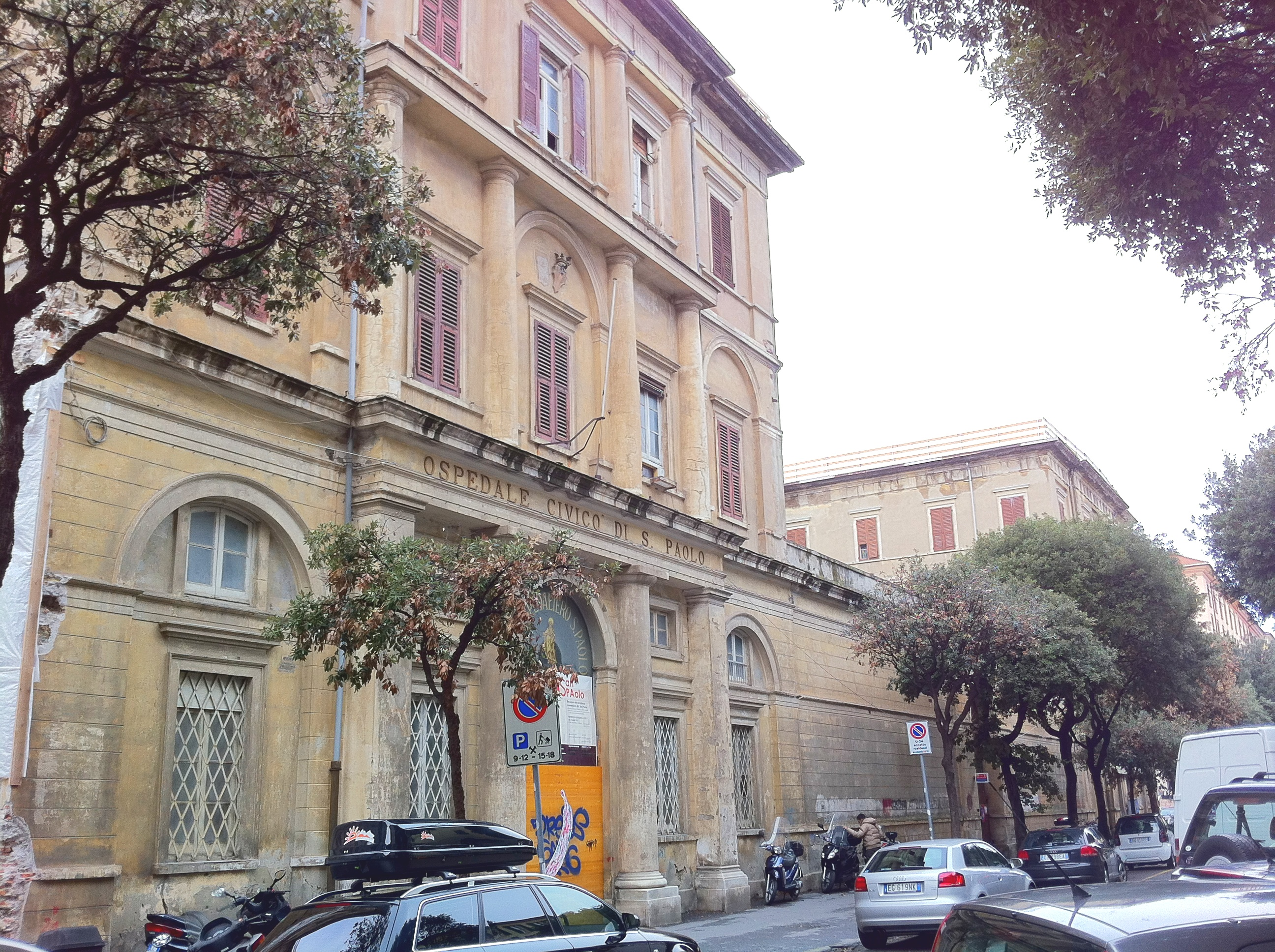 Ex saint Paul Hospital in Savona (Italy)